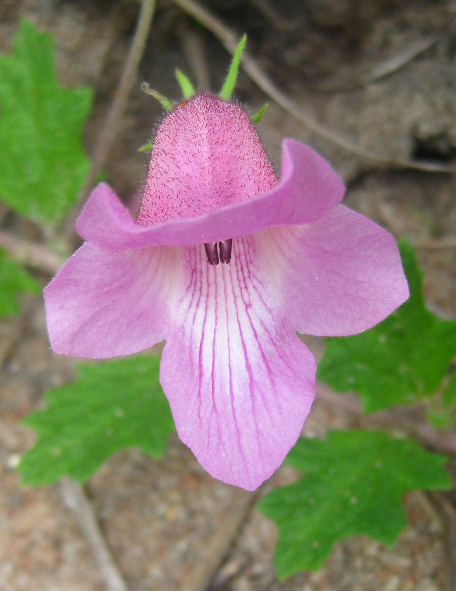 The flower of Dicerocaryum senecioides ("devil's thorn", family Pedaliaceae) close to Chimoio, Mozambique. The leaves are used as a substitute for shampoo.